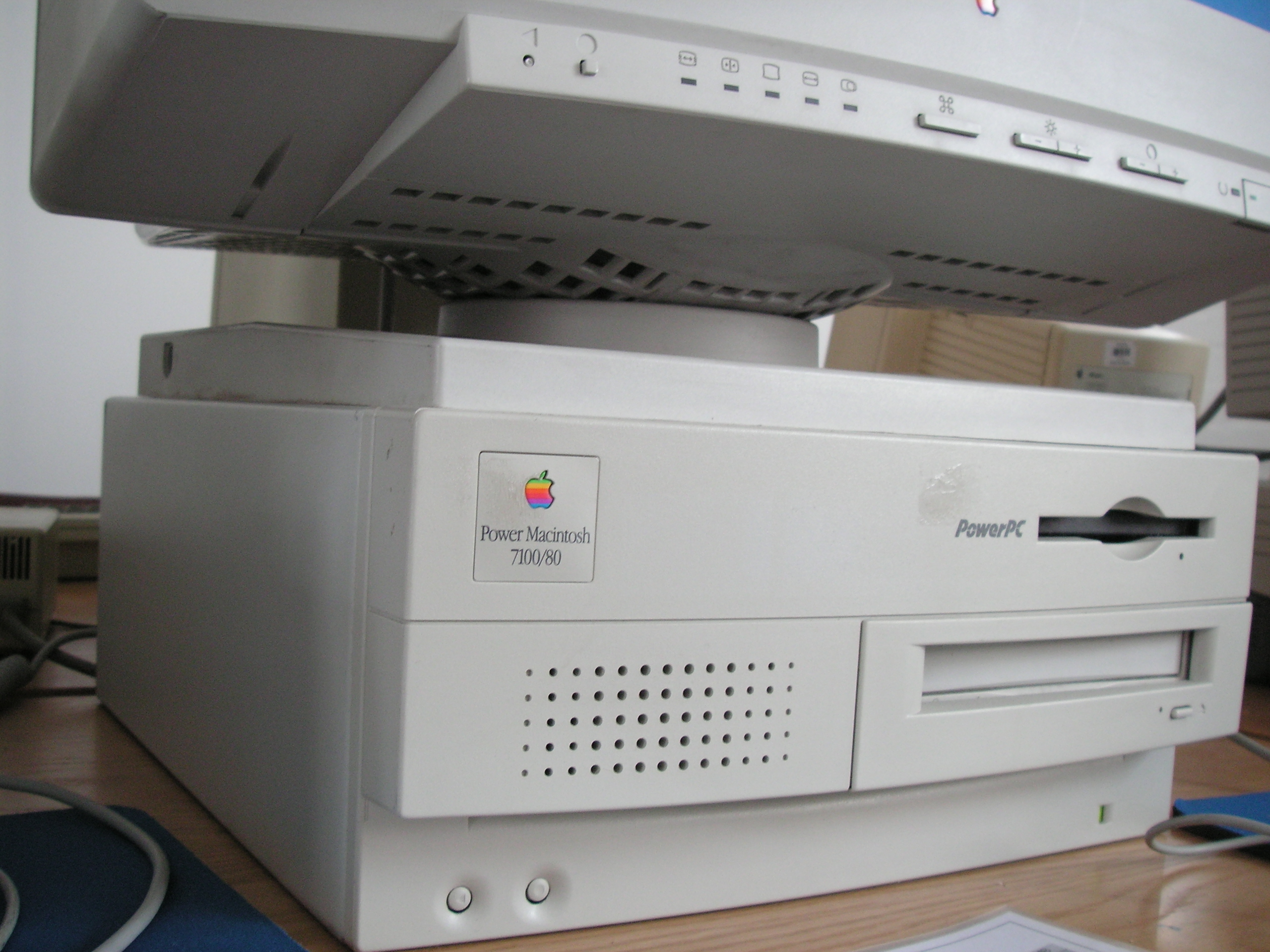 Front view of a Power Macintosh 7100/80